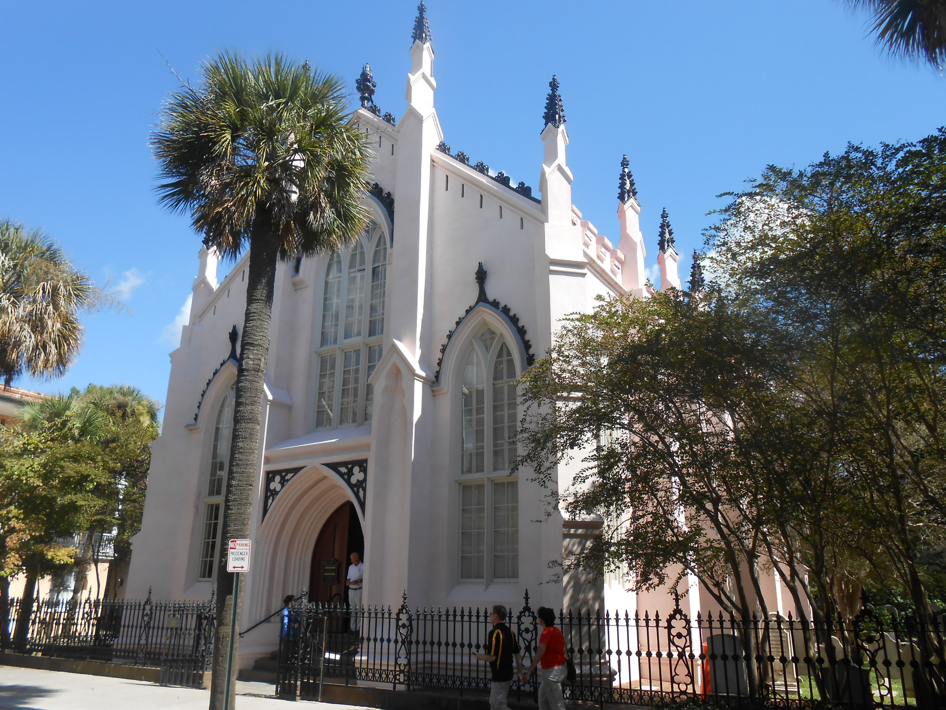 The French Huguenot Church at 136 Church St., Charleston, South Carolina is the city's first Gothic Revival church.